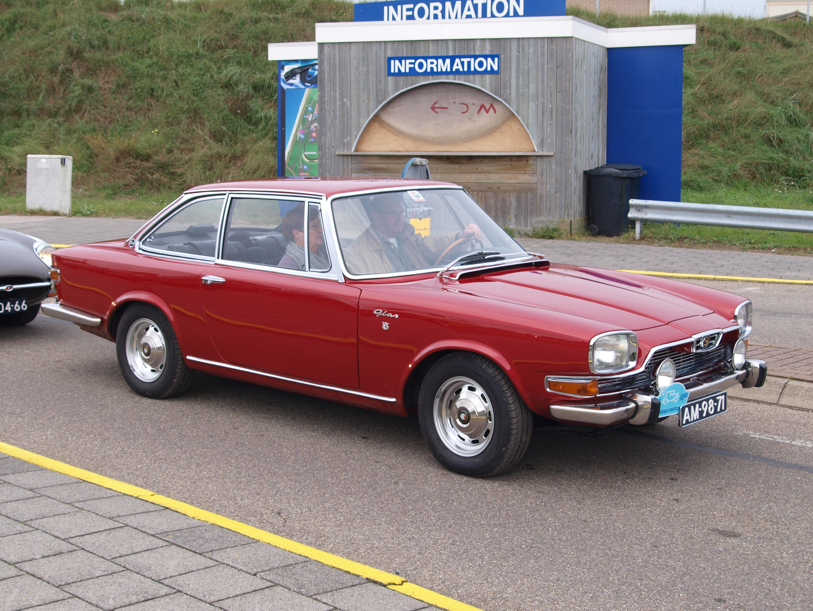 Photographed at the Nationaal Oldtimer Festival Zandvoort 2010, The Netherlands.